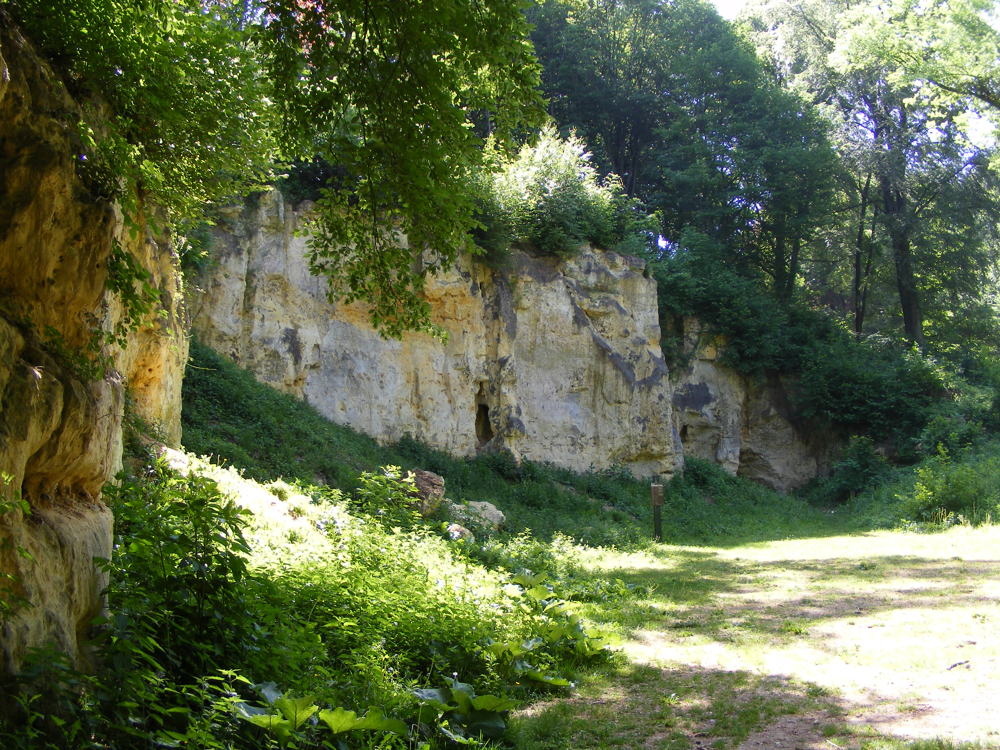 Marl cliff, in the Savelsbos woods near Gronsveld, South Limburg, Netherlands.